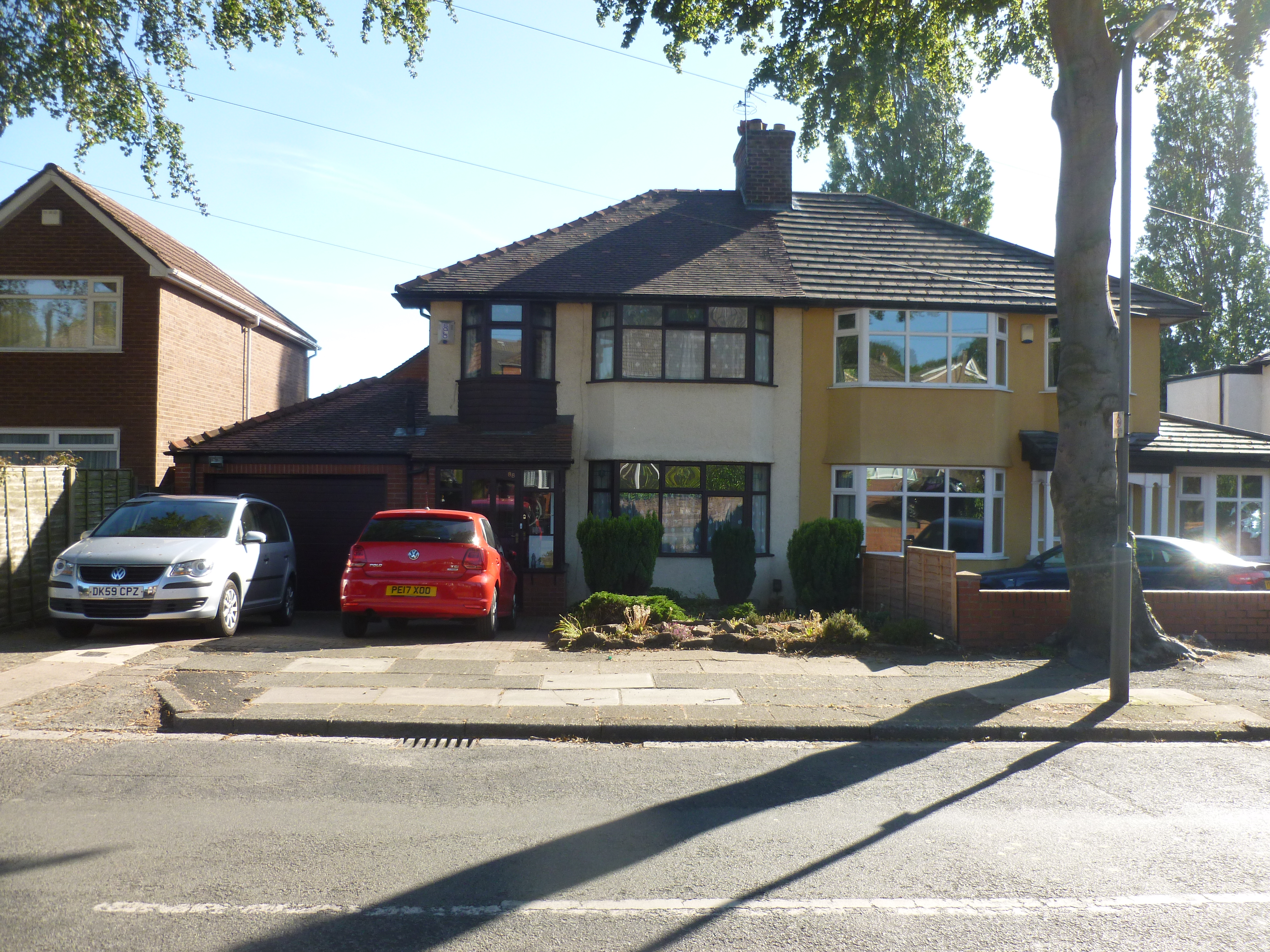 Liverpool. Vale Road. 88 Vale Road, named "Leosdene", was Nigel Walley childhood home. Behind the houses, where are the two big trees at the right wing of the photo, is Mendips (251 Menlove Avenue), John Lennon's childhood home.